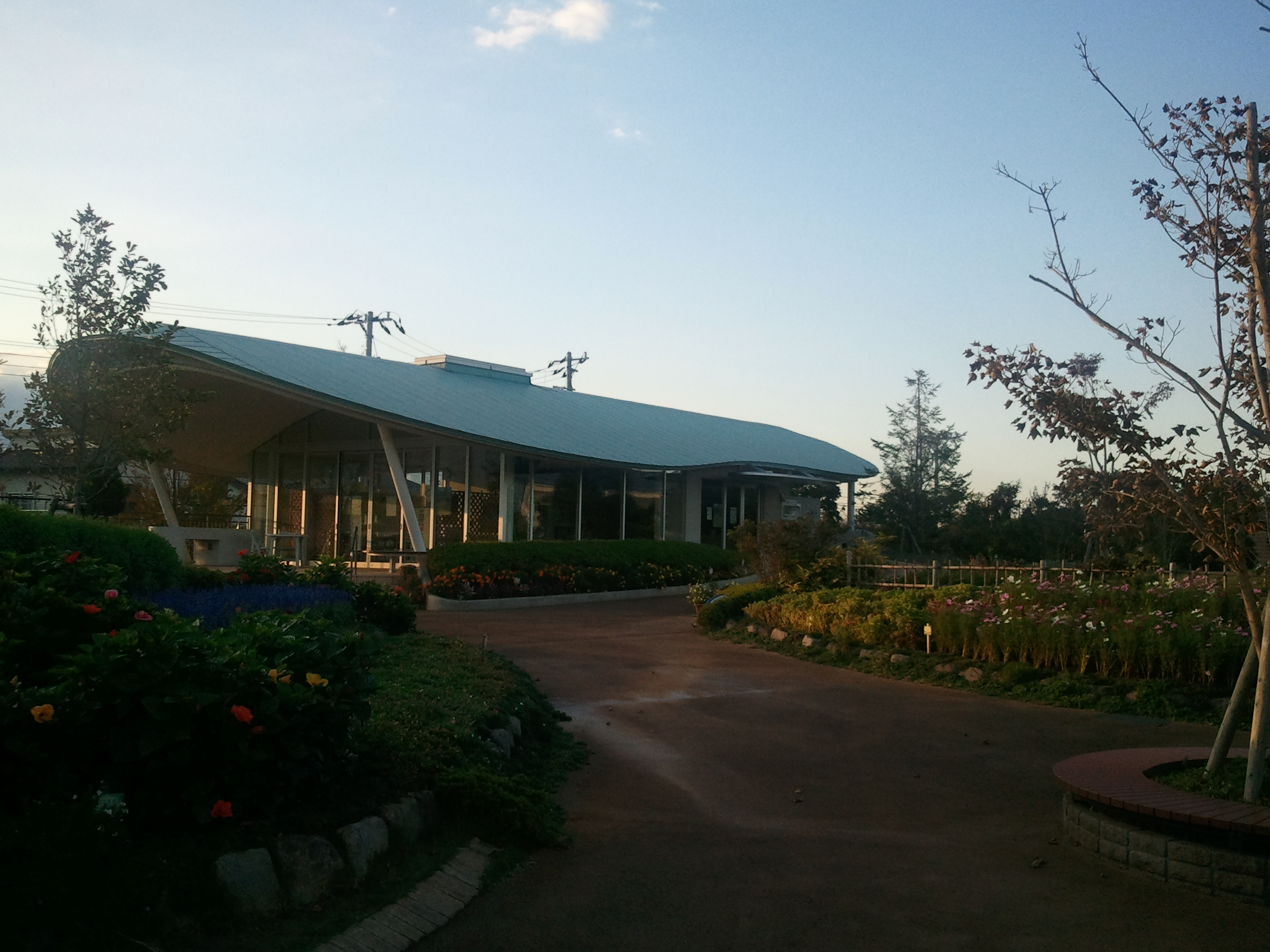 Higashi-Matsudo Yuinohana Park Magnoliahouse